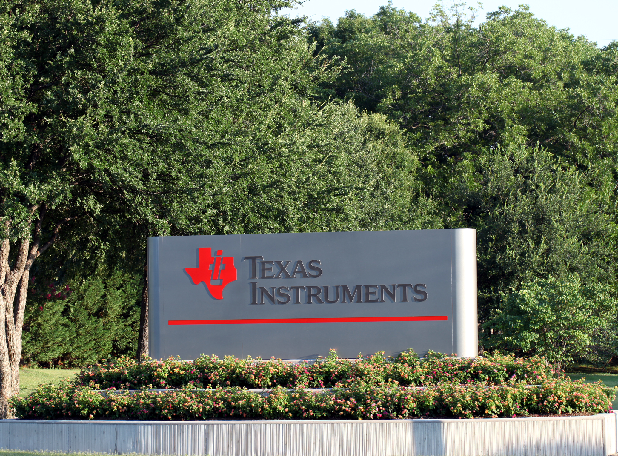 TI signboard at its facility in Dallas